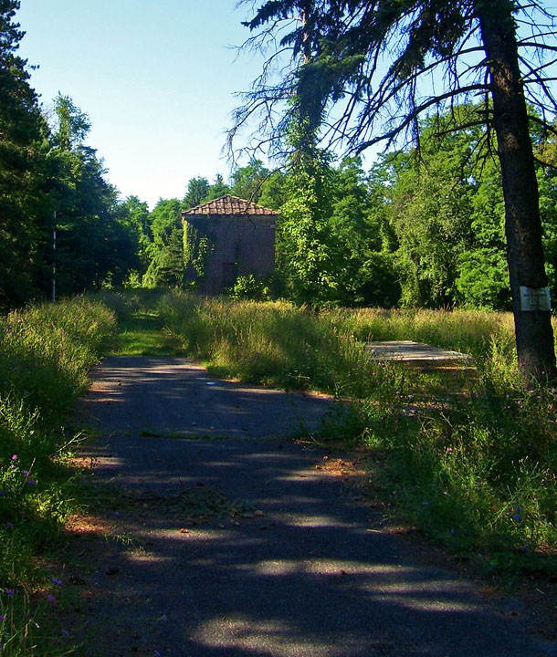 Photographed by Daniel Case 2006-08-12, at one of several junctions of the aqueduct and Route 208